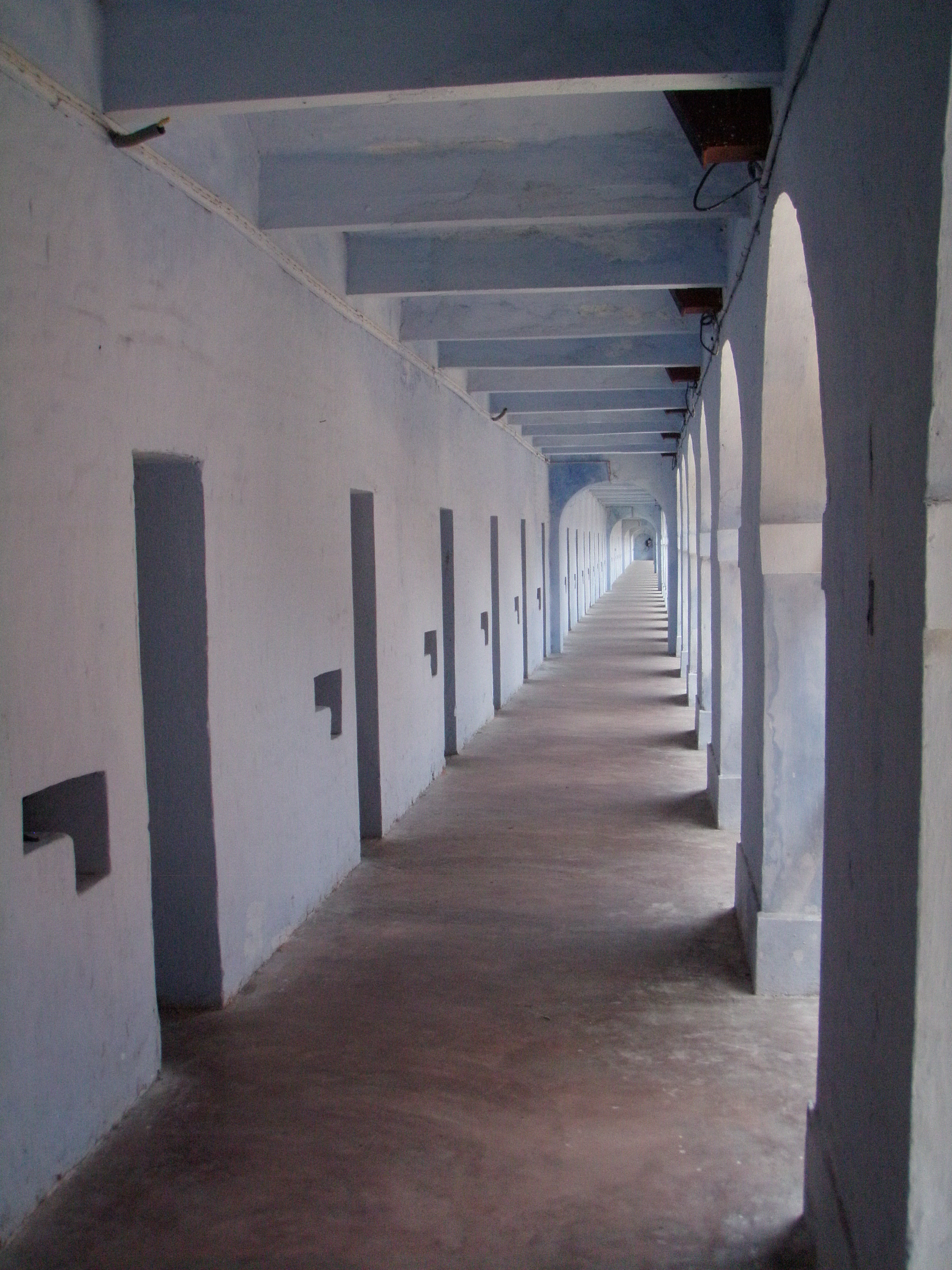 The Andaman Cellular Jail was the shadiest prison of the British rule in india. Now it is Indian National Memorial and tourist attraction at Port Blair.